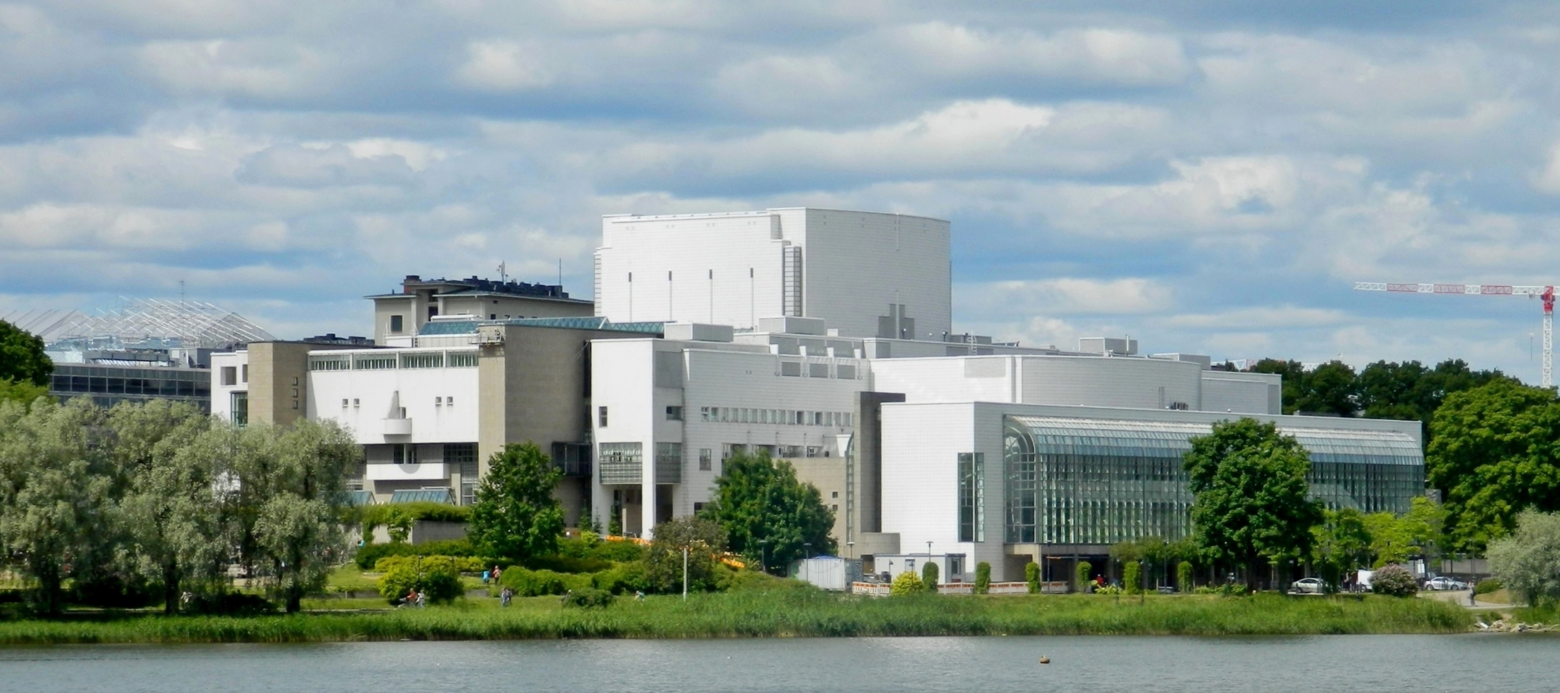 Finnish National Opera House from Töölö Bay